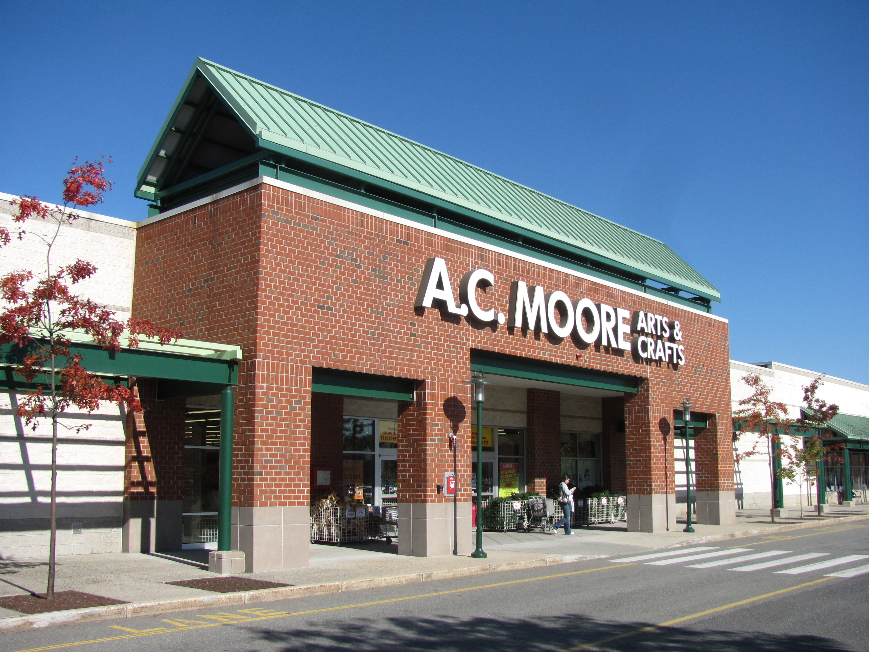 A.C. Moore, Shoppers World, Framingham Massachusetts